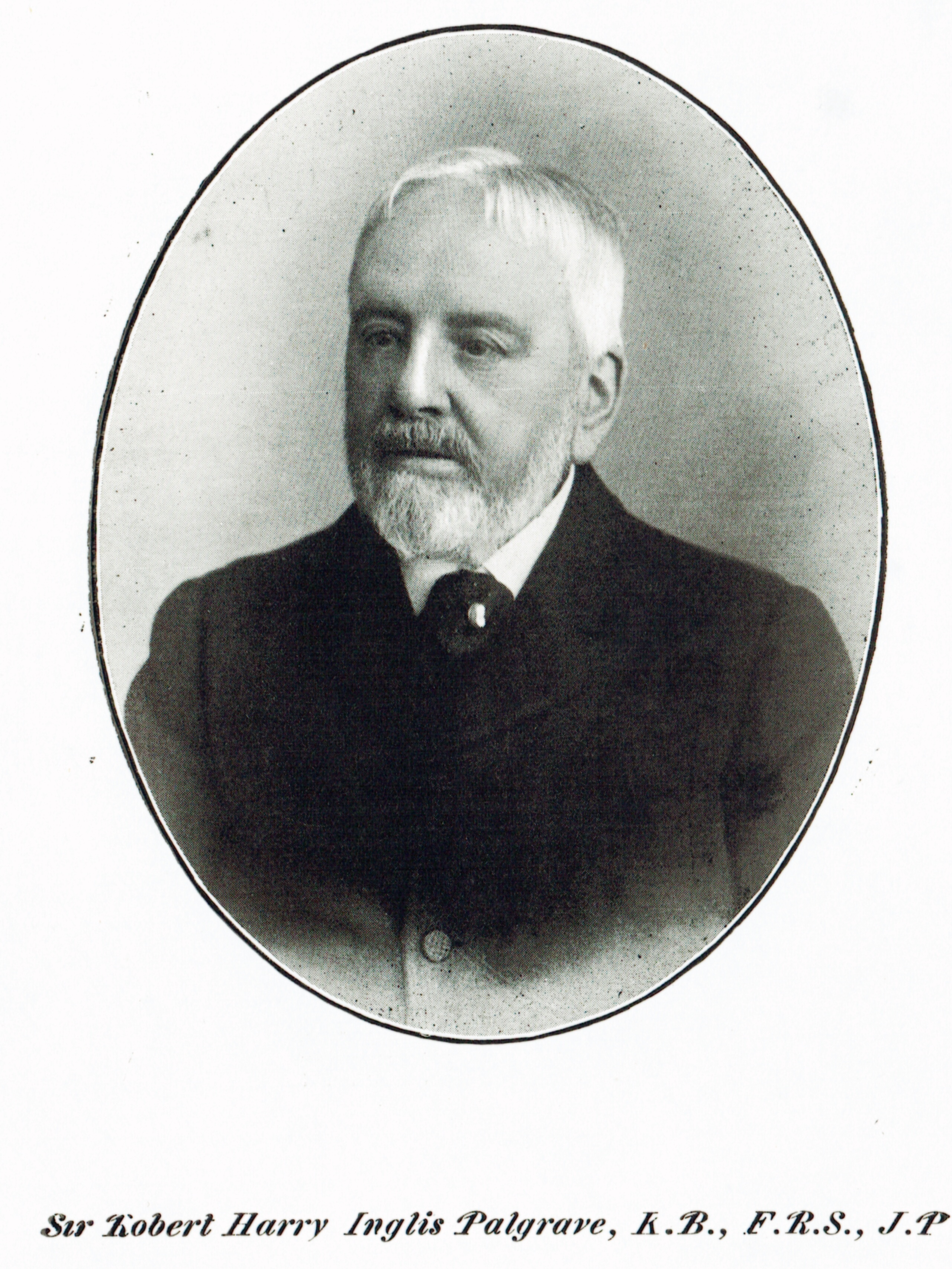 Portrait of Sir Robert Harry Inglis Palgrave (1827-1919), Knight Bachelor, Fellow of the Royal Society, Justice of the Peace, from the book 'Suffolk Leaders: Social and Political' by Ernest Gaskell [usually spelled Gaskill in official records (1868-1928)] published for private circulation [late 1911 or early 1912] by the Queenhithe Printing and Publishing Co. Ltd, 13 Bread Street Hill, Queen Victoria Street, London E.C.